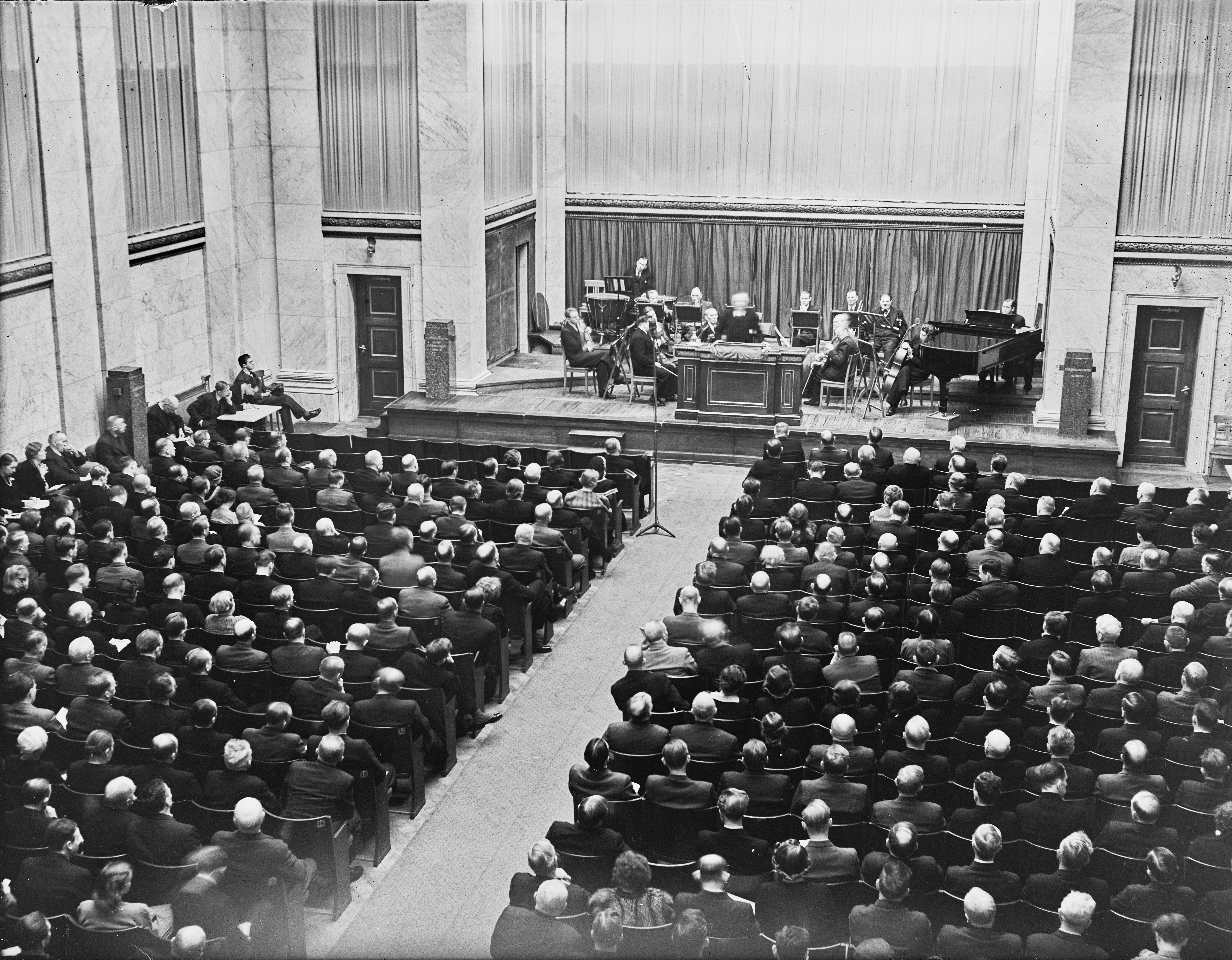 Norsk-Tysk Selskaps møte i Aulaen mars 1941 (Original bildetekst)